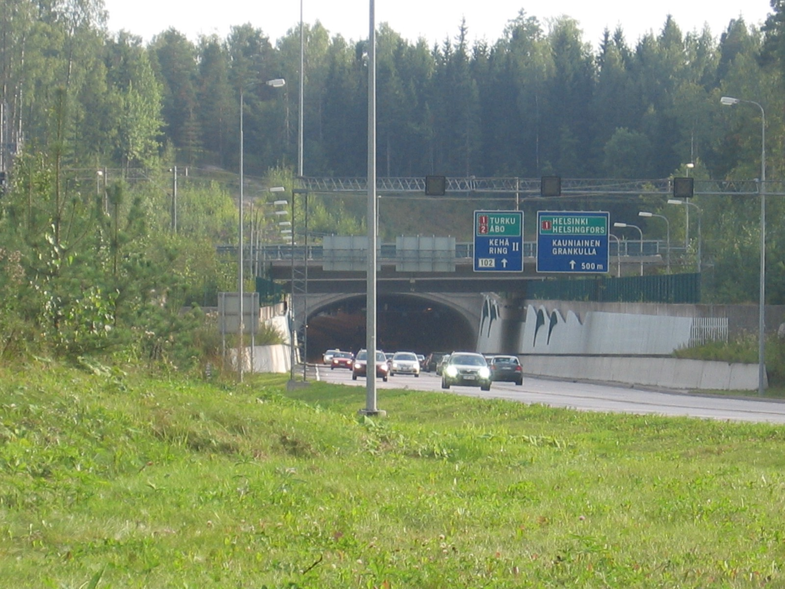 Ring Road II (regional road 102) and Hiidenkallio tunnel in Espoo, Finland.